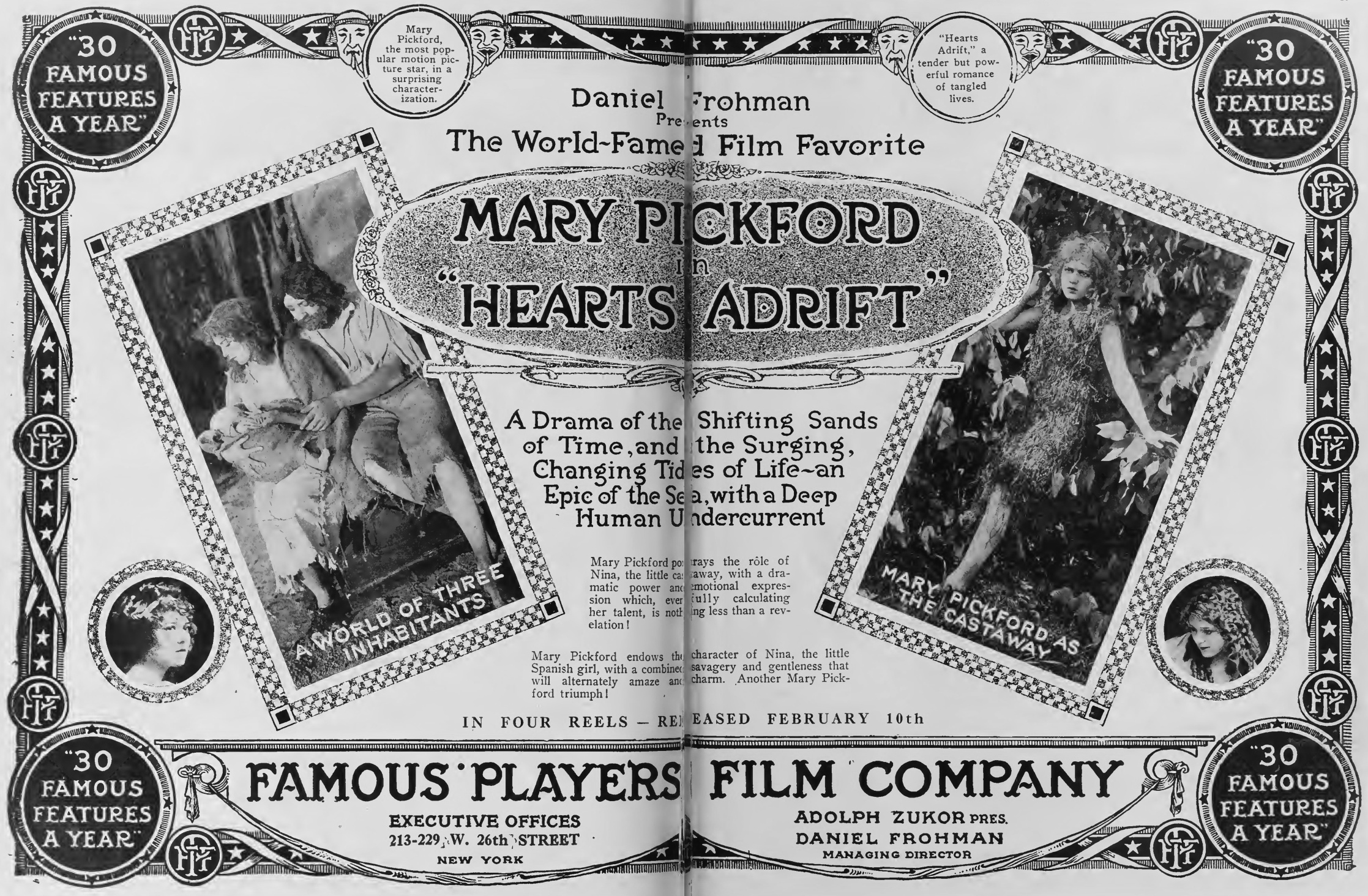 Hearts Adrift was a 1914 silent short romance film directed by Edwin S. Porter. Based upon the 1911 story As the Sparks Fly Upward by Cyrus Townsend Brady, the film is now considered lost. This is from an advertisement in a trade magazine. (Advertisement was on two pages, magazine seam resulted in some missing data in the center.)